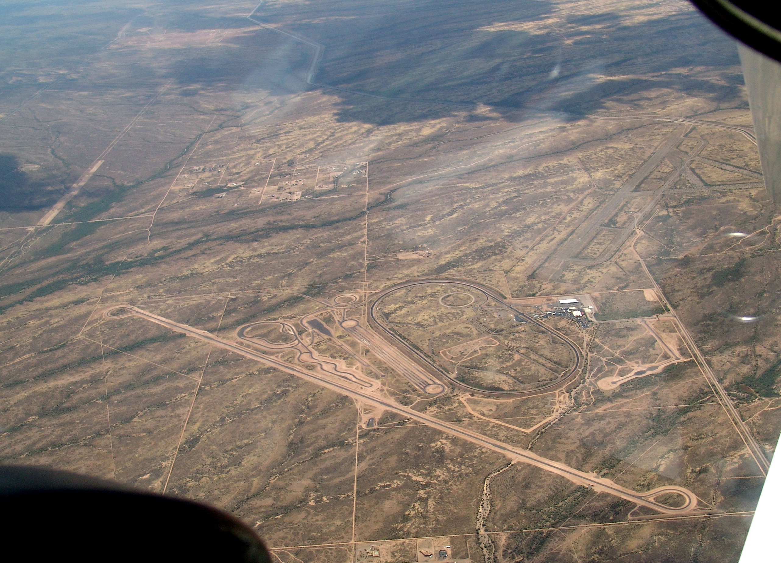 Ford Arizona Proving Ground near Phoenix, Arizona; Wittman Auxiliary field is also visible.